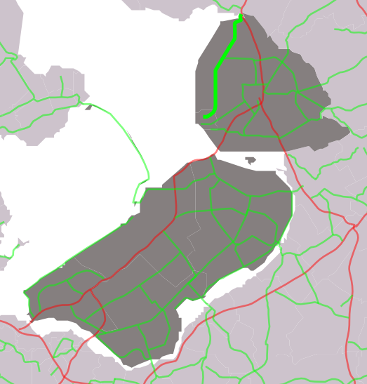 Map of Flevoland with Dutch provincial road no. 712